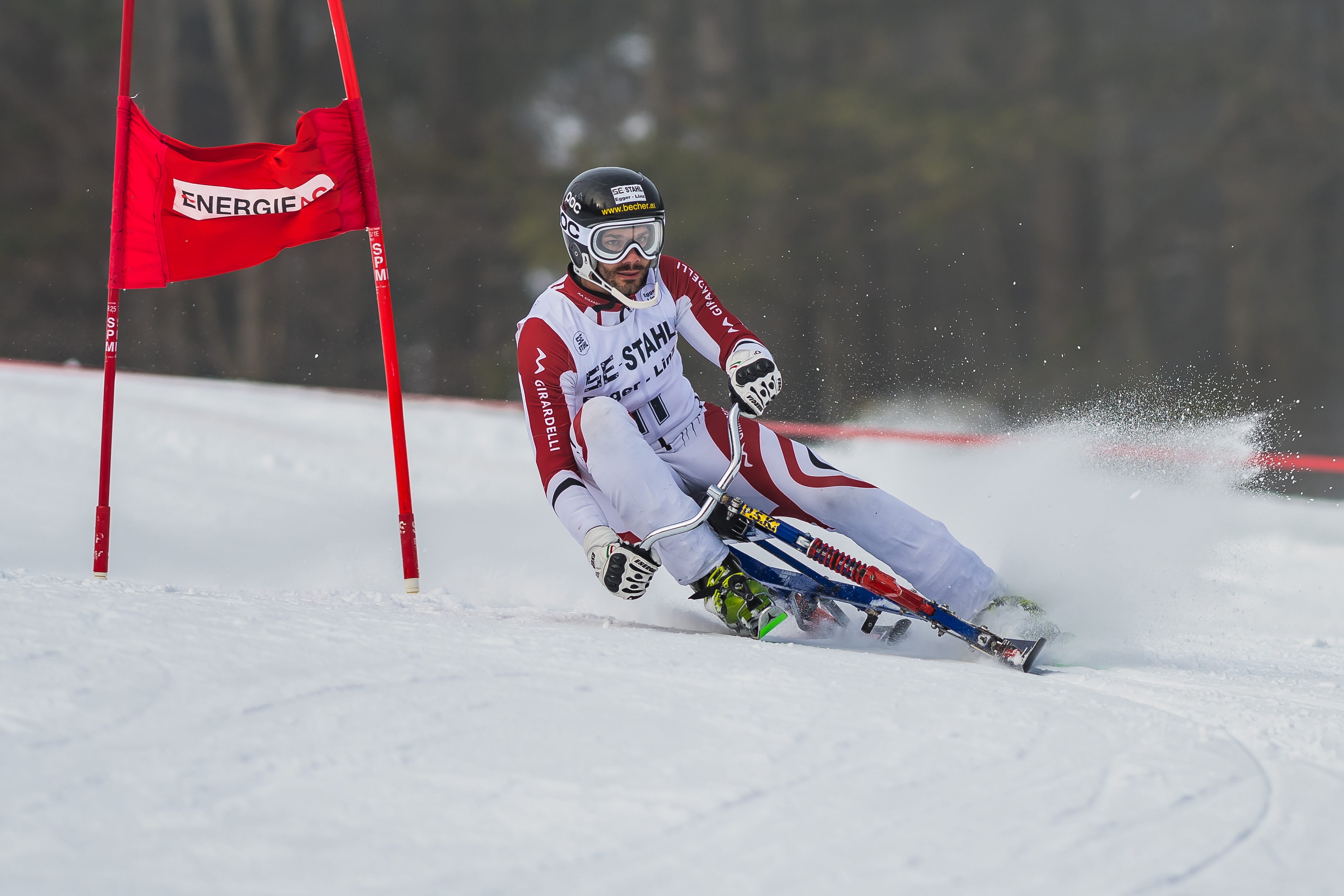 Austrian National Championship 2018 Skibobbing; Super G; Clemens Derflinger from club ASKÖ SBC Linz